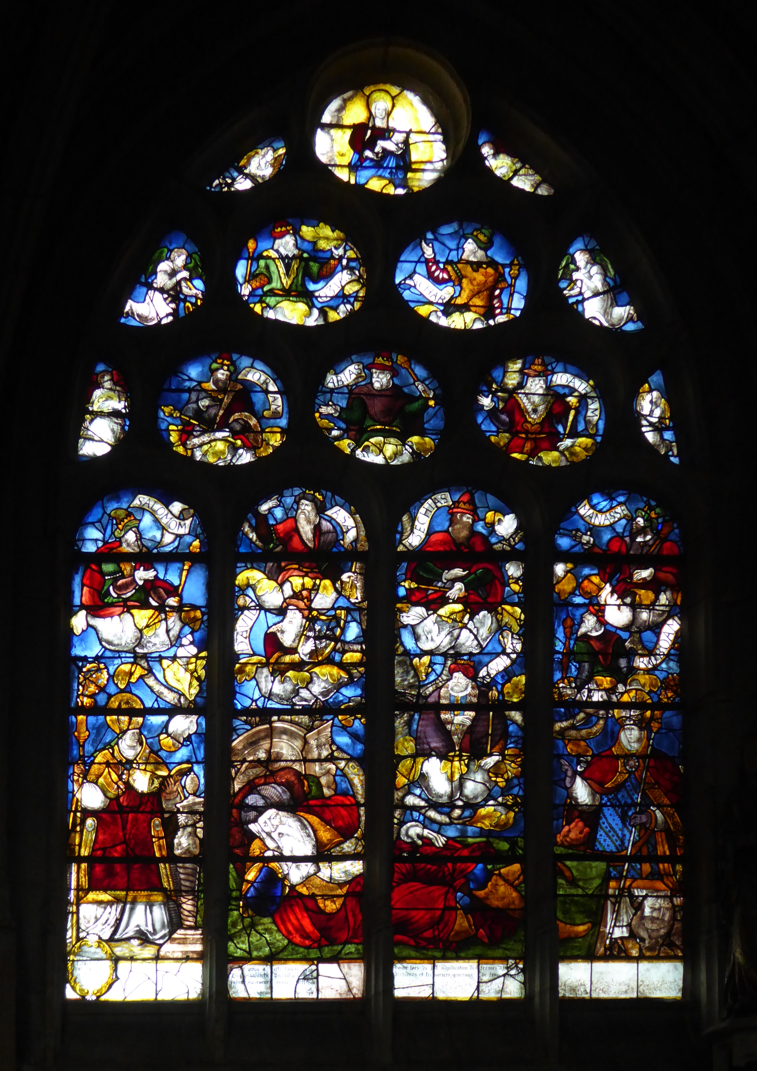 Stained glass in the church in Pont-de-l'Arche (Eure, France), depicting a tree of Jesse ; it is written in the bottom-left corner that this glass has been restored in the 19th century. .